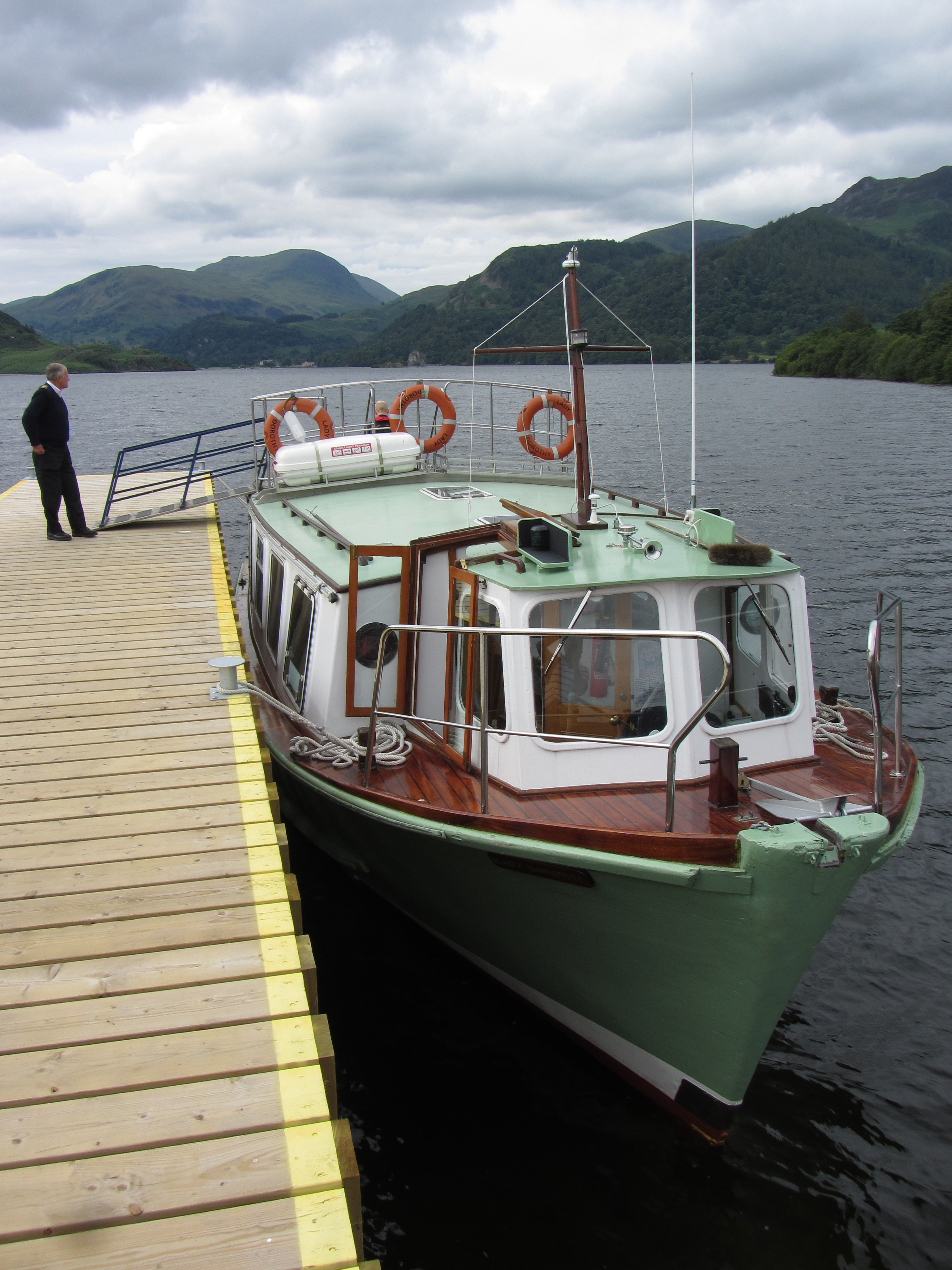 MV Lady Dorothy at the new Aira Force pier